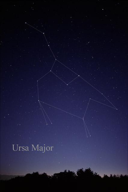 Photography of the constellation Ursa Major, the Great Bear